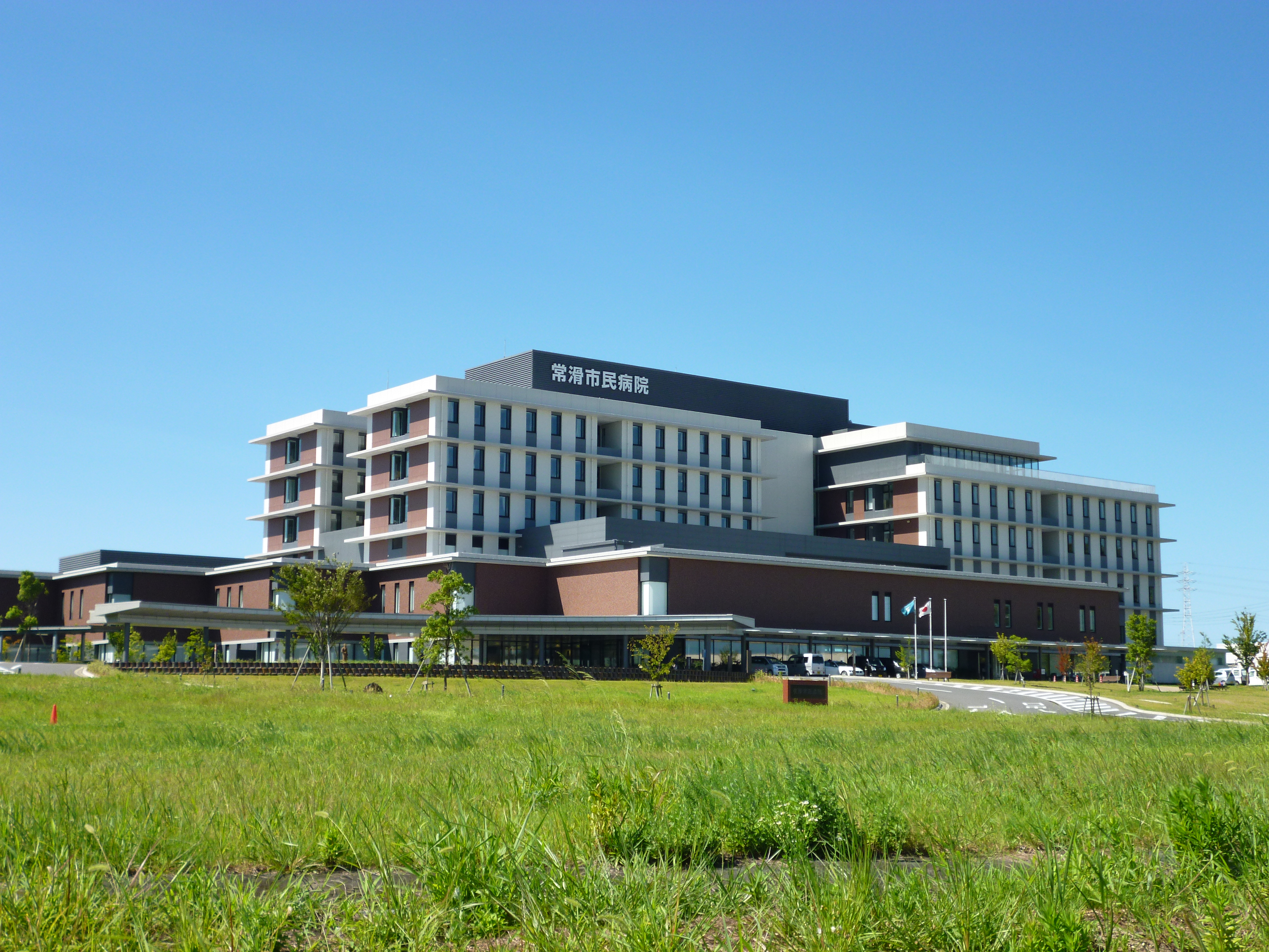 Tokoname City Hospital in Tokoname, Aichi, Japan.